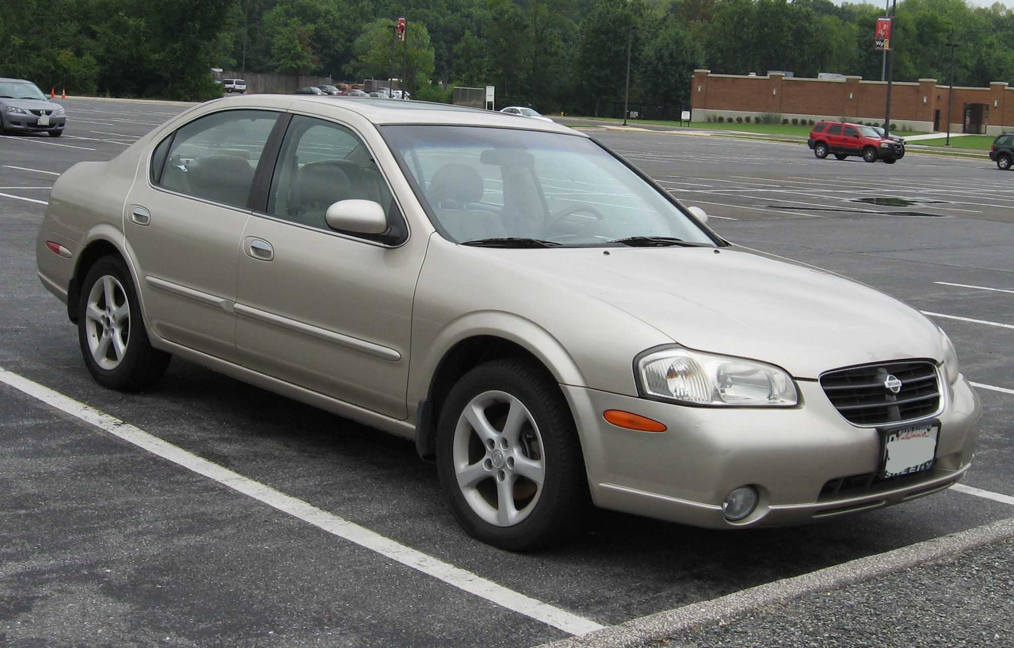 2000-2001 Nissan Maxima photographed in USA.